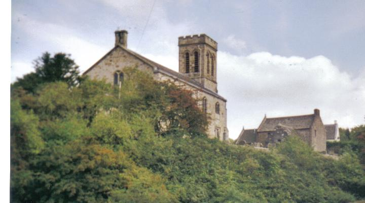 Dunlop Church in Ayrshire showing the 'Picture House' and the Clandeboye old school or Hall.